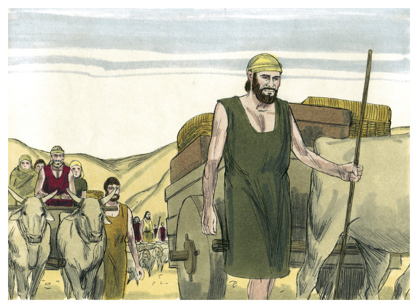 Biblical illustration of Book of Genesis Chapter 46